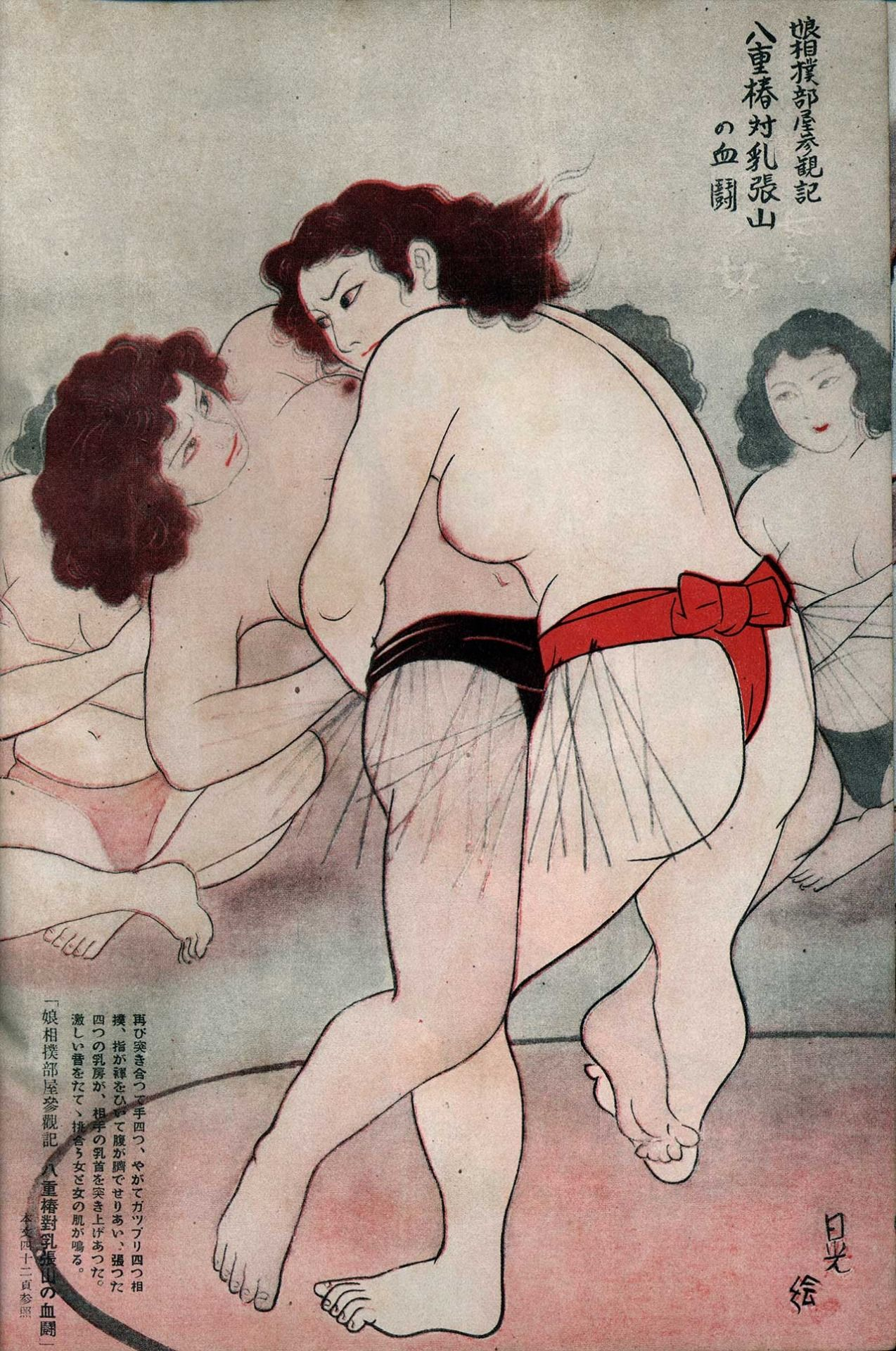 Sumo Wrestlers